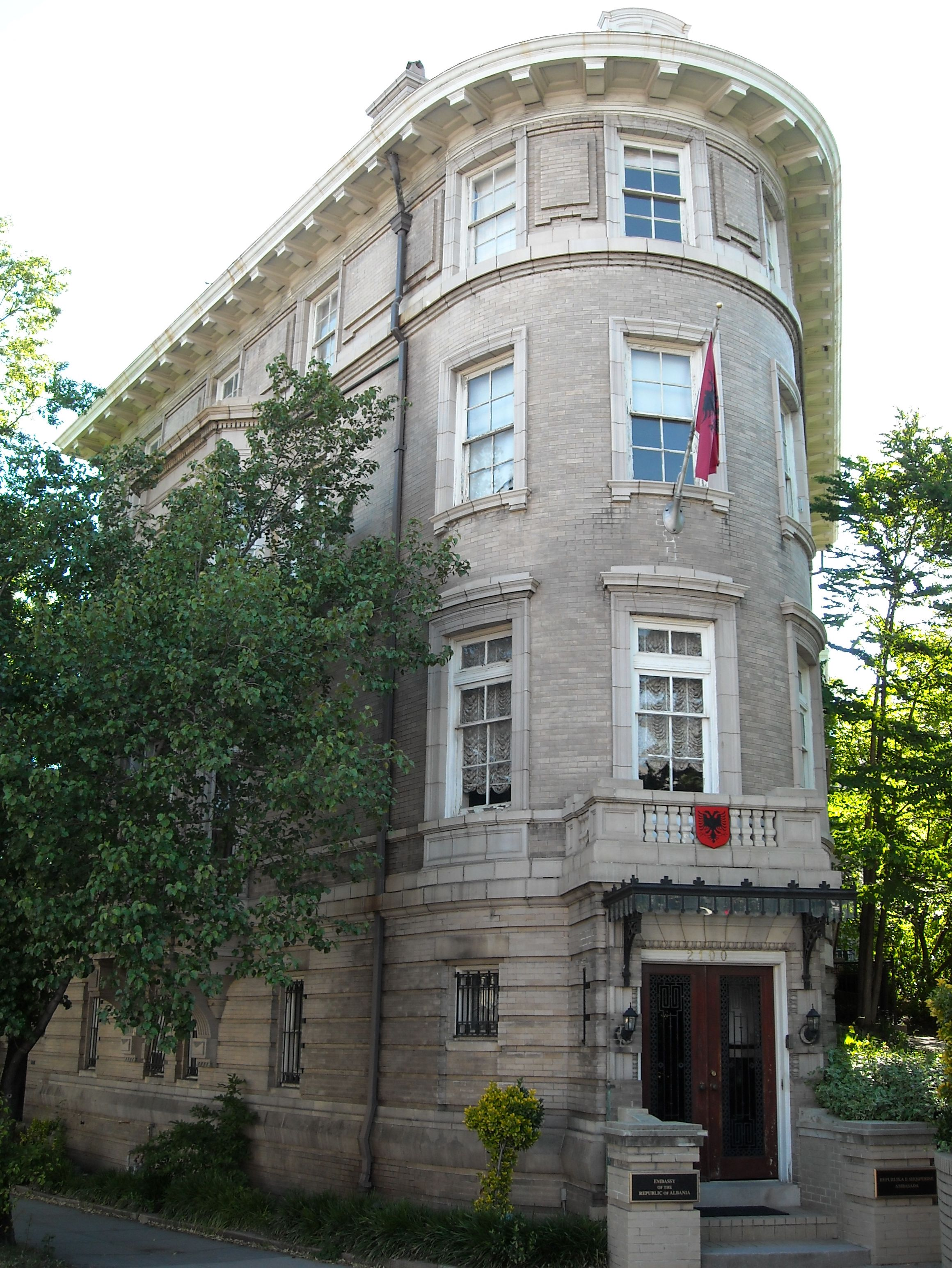 Embassy of Albania to the United States. Located in Washington, D.C.